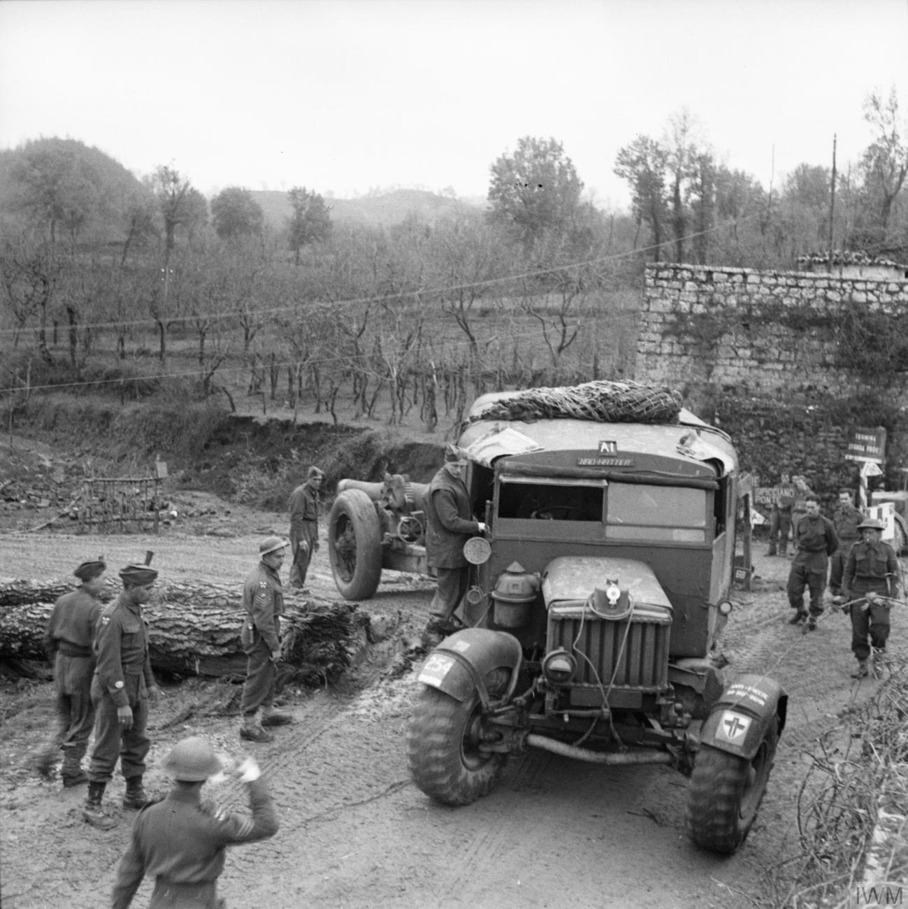 The British Army in Italy 1943 7.2-inch gun and Scammell tractor of 18/56th Heavy Regiment, Royal Artillery, negotiating a narrow corner in the 46th Division sector, 23 December 1943.